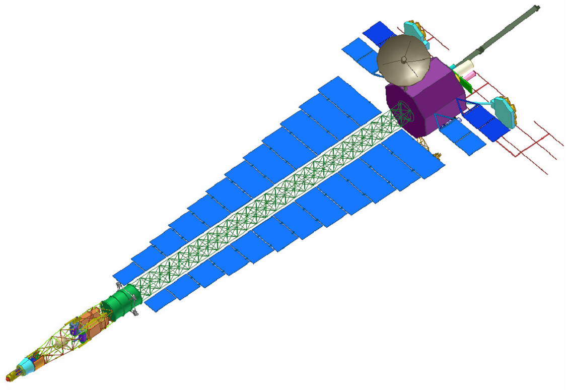 JIMT spacecraft baseline preceding the JIMO design